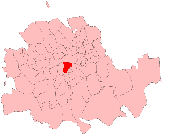 A map of Southwark West constituency within the Metropolitan Board of Works area, as it existed from 1885 to 1918.